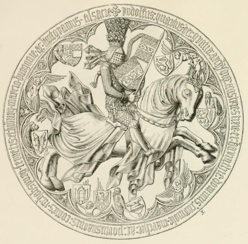 Rudolf IV, Duke of Austria